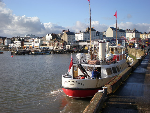 View of Bridlington harbour, Bridlington, East Riding of Yorkshire, England.View of Bridlington harbour and harbourside buildings with the "Yorkshire Belle" moored against the jetty from which the photo was taken.